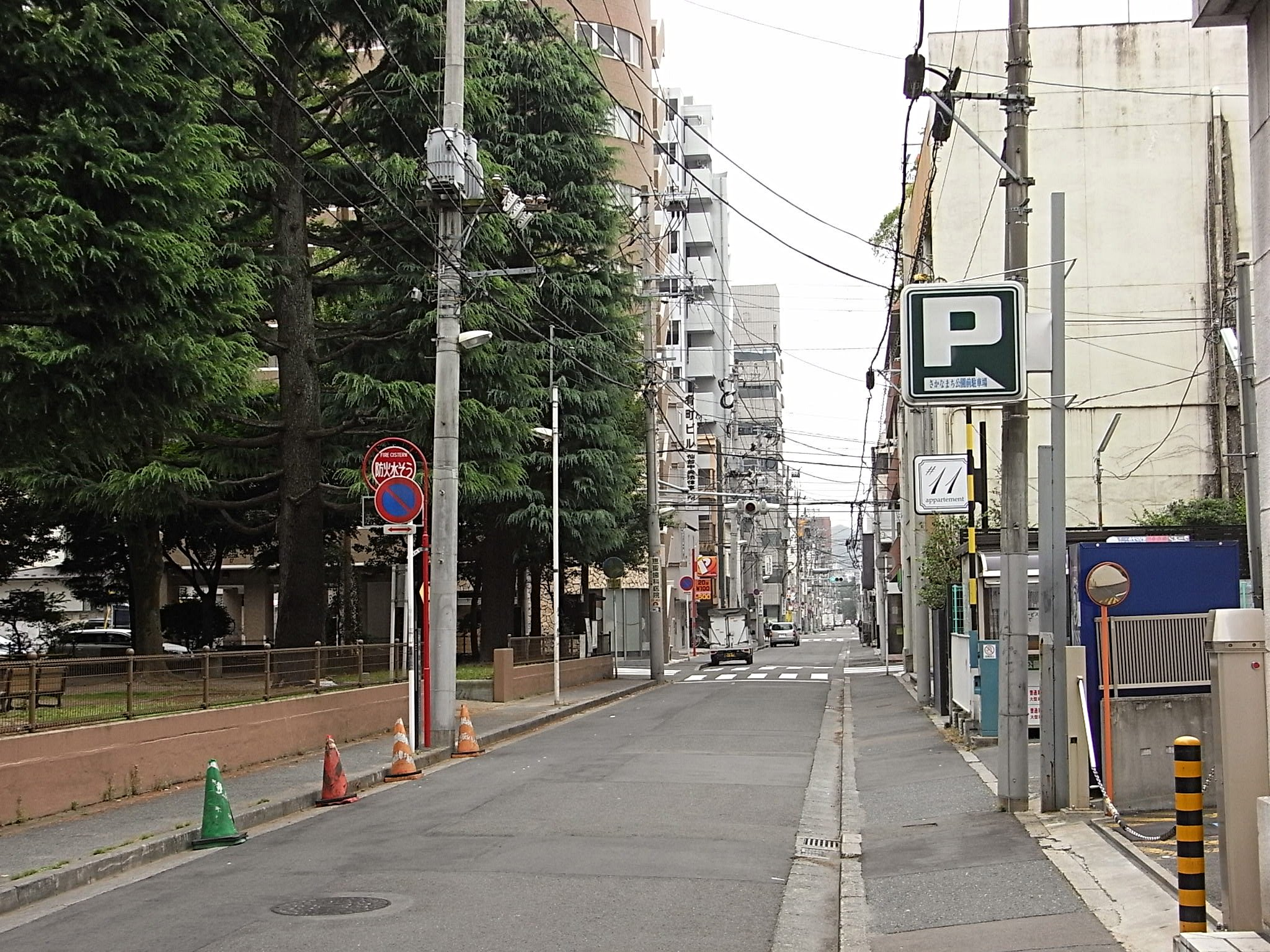 Sakanamachi Avenue. Kokubunchō 1 chōme, Aoba ward, Sendai, Miyagi prefecture, Japan. Left is Sakanamachi Park. Westward.